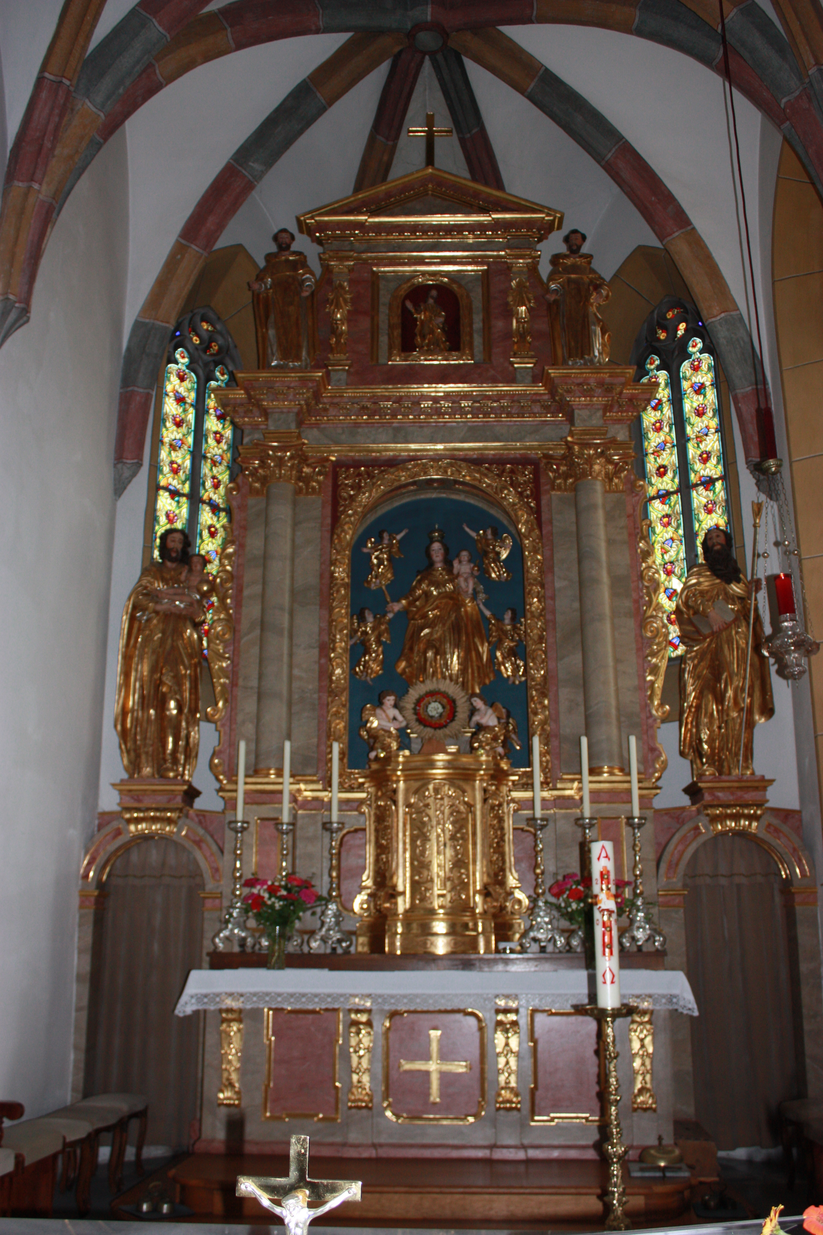 Parish church Assumption of Mary - Main altar Locality: Sankt Marein im Lavanttal Community:Wolfsberg